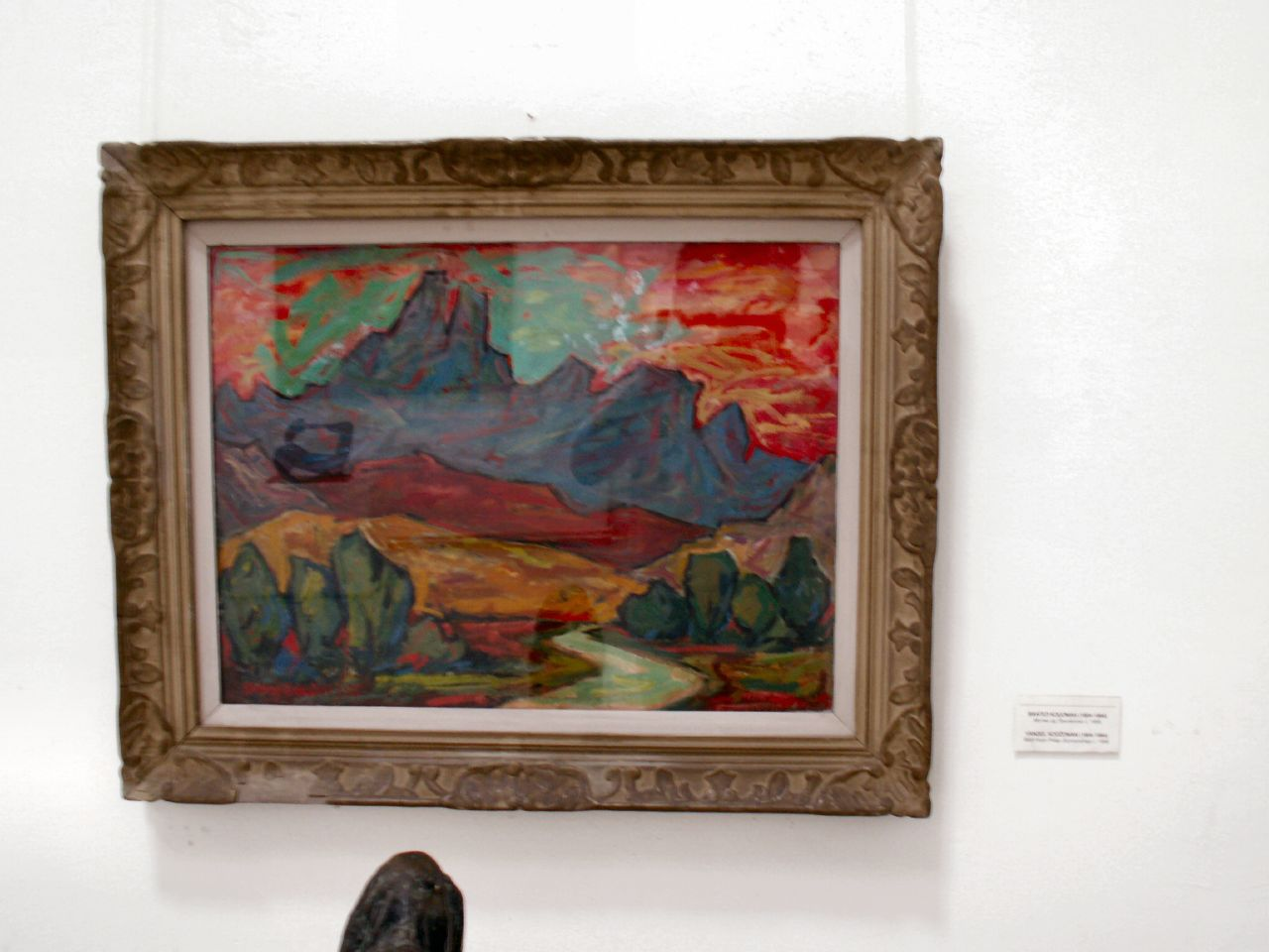 Macedonian Painter Kodzoman